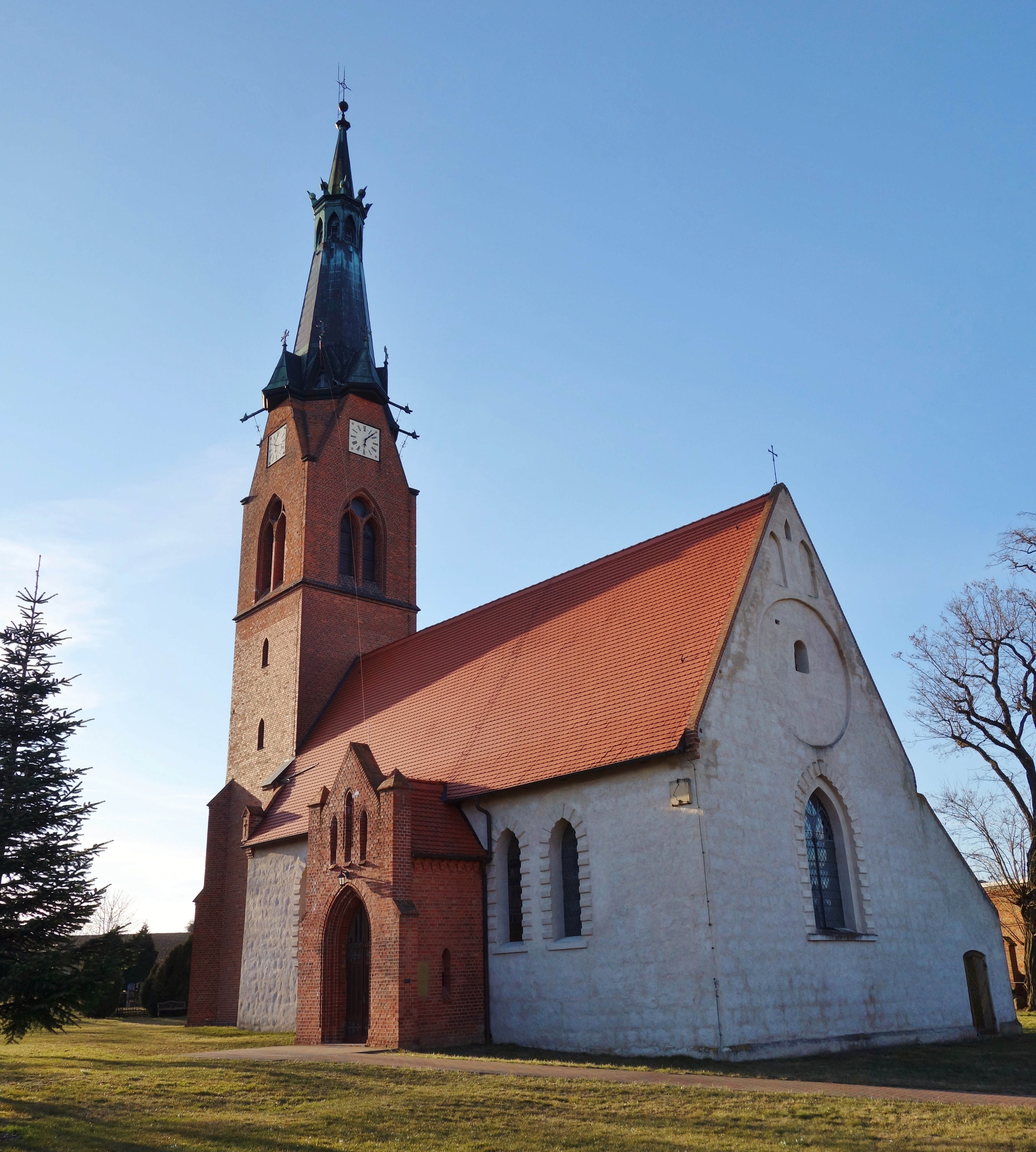 South-eastern view of the church in Röpersdorf , Nordwestuckermark municipality, Uckermark district, Brandenburg state, Germany